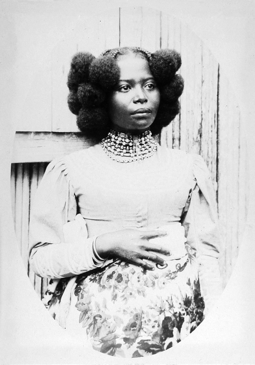 "Nosy-Be kvinde" ("Nosy-Be woman"). From the island of Nosy-Be, north west Madagascar. Title: Nosy-Be woman, Nosy-Be, Madagascar, [s.d.] Record ID:impa-m3390